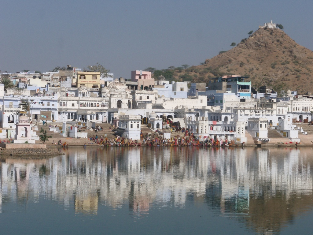 Bathing Ghats on Pushkar Lake, Rajasthan.